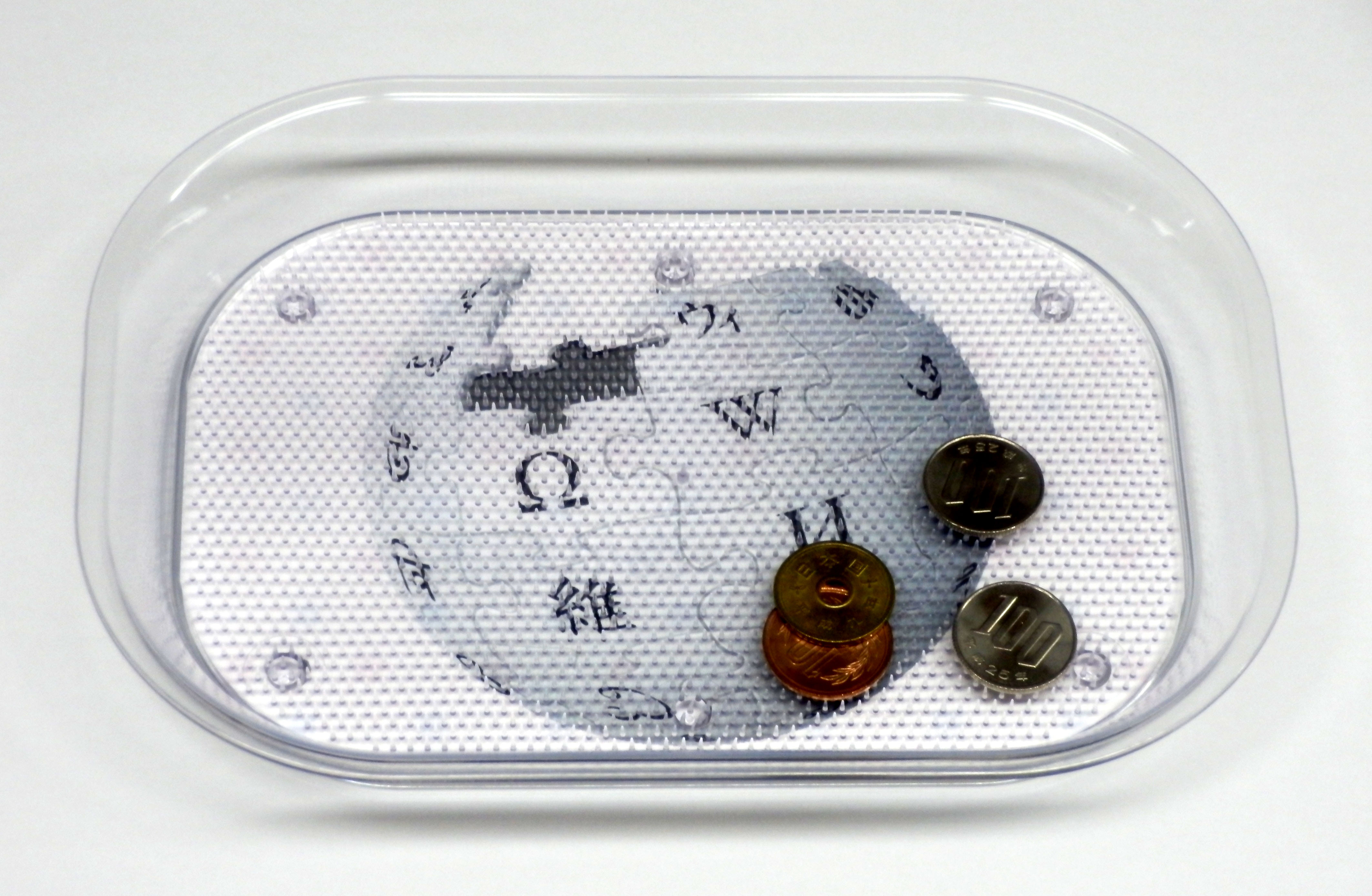 A kind of coin tray used on checkout counters in Japan